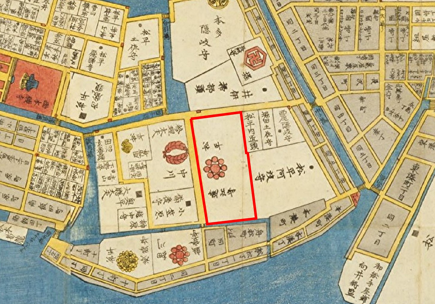 Residence of Sakurai clan at Edo